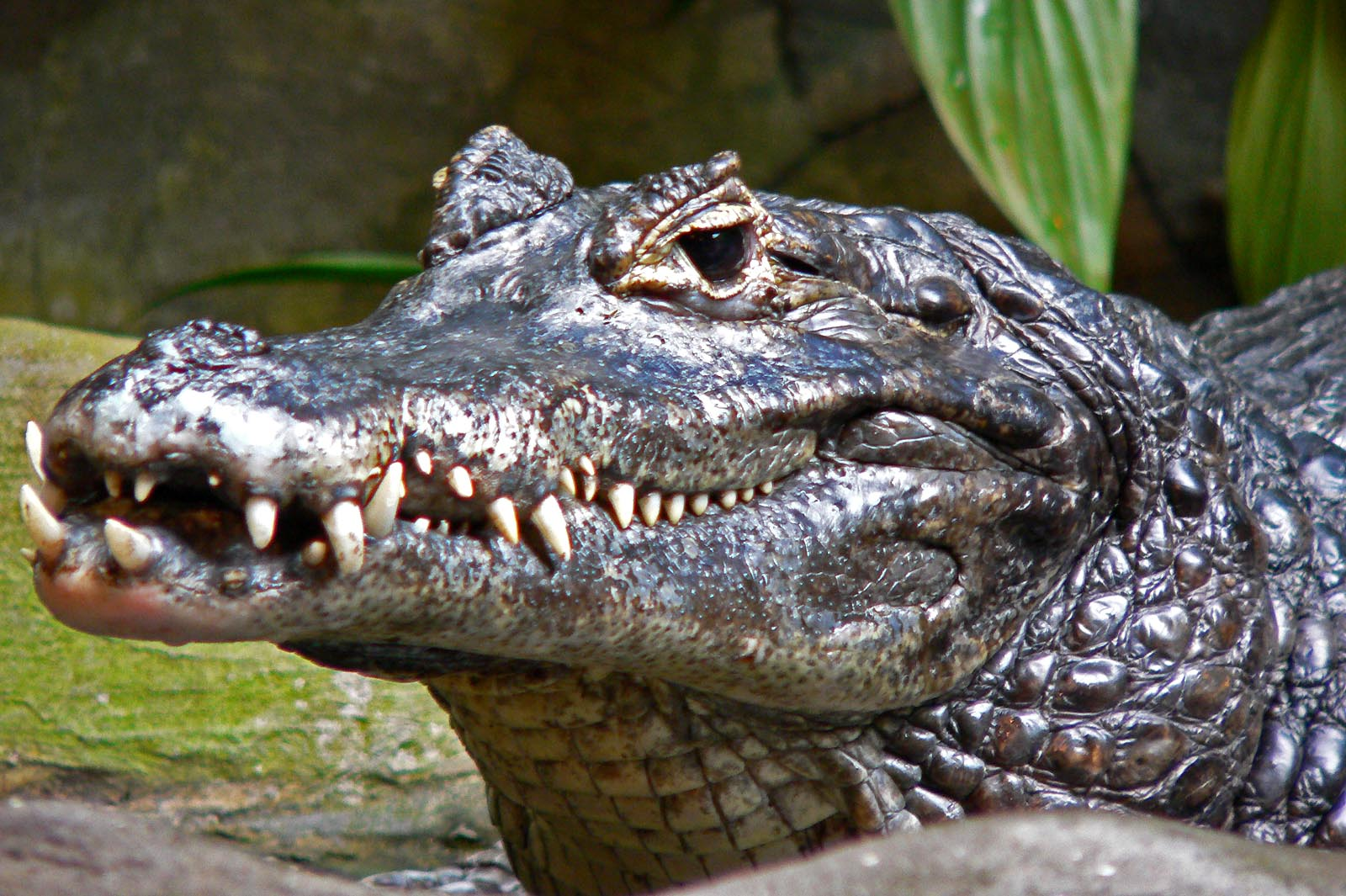 Photo of Caiman yacare (jacare) at the Vancouver Aquarium